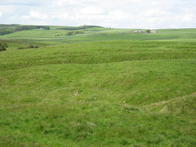 Roman Fort. In the distance are Hadrian's Wall, Great Chesters Farm and Aesica in NY7066, and Cockmount Hill Farm in NY6966. Additional note: Specifically, this is the site of the "Haltwhistle Burn" Roman Fortlet, about 1/2 mile (1 km) southeast of Great Chesters Fort (Aesica).